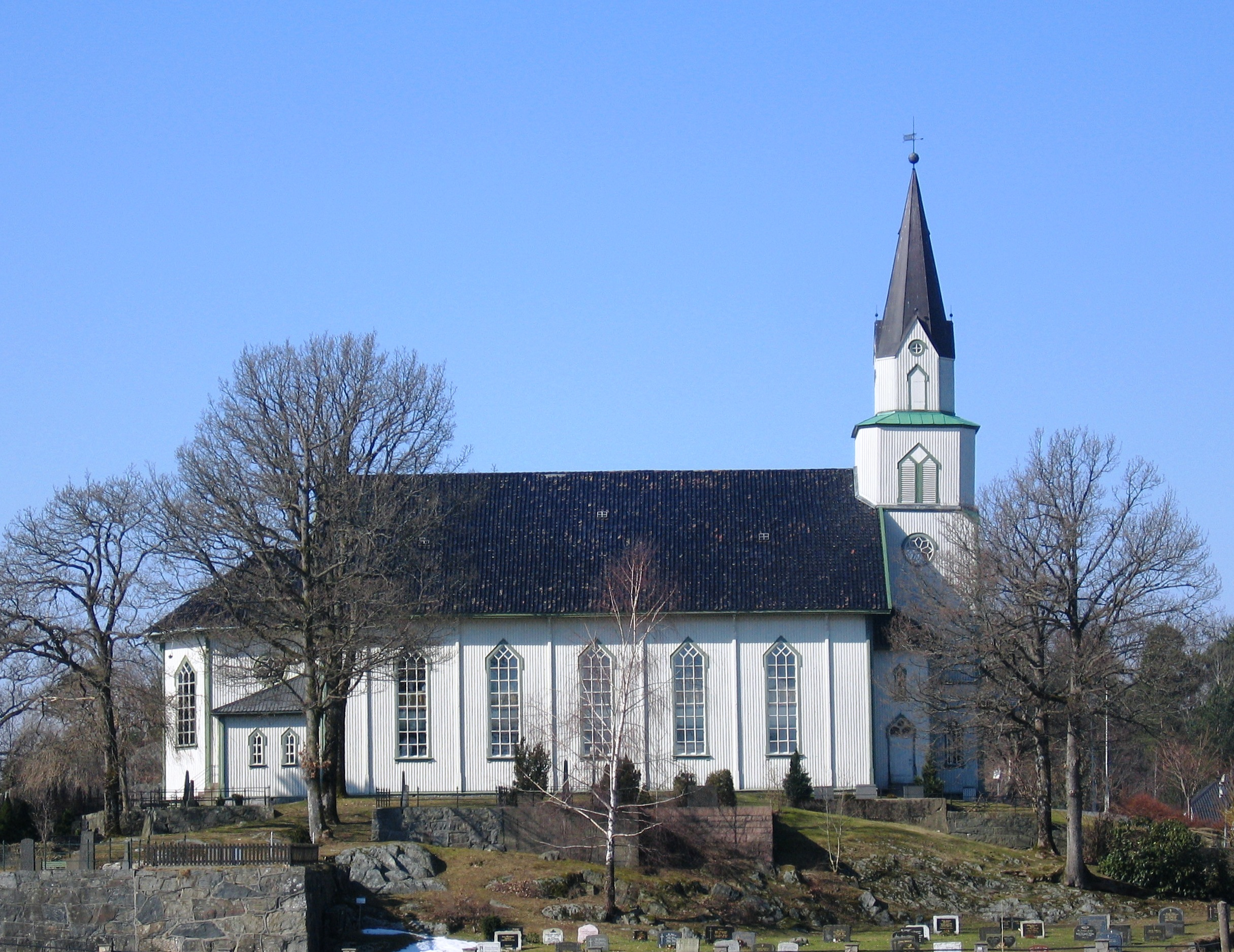 Bjorbekk church in Øyestad in Arendal municipality in Norway. Built in wood and newgothic style 1884.